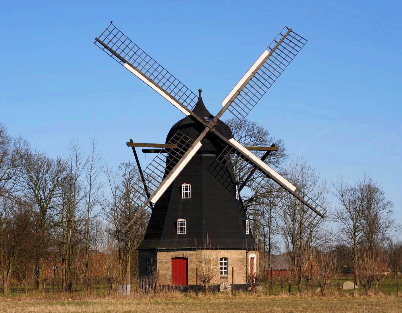 Flackarp Windmill near Lund, Sweden